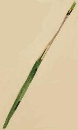 Stainton’s Natural History of the Tineina (1855–1873): Elachista quadrella mined leaf of Luzula pilosa